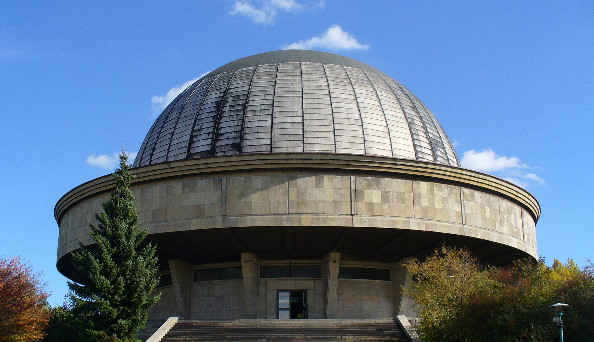 Silesian Planetarium in Chorzow (Königshütte).